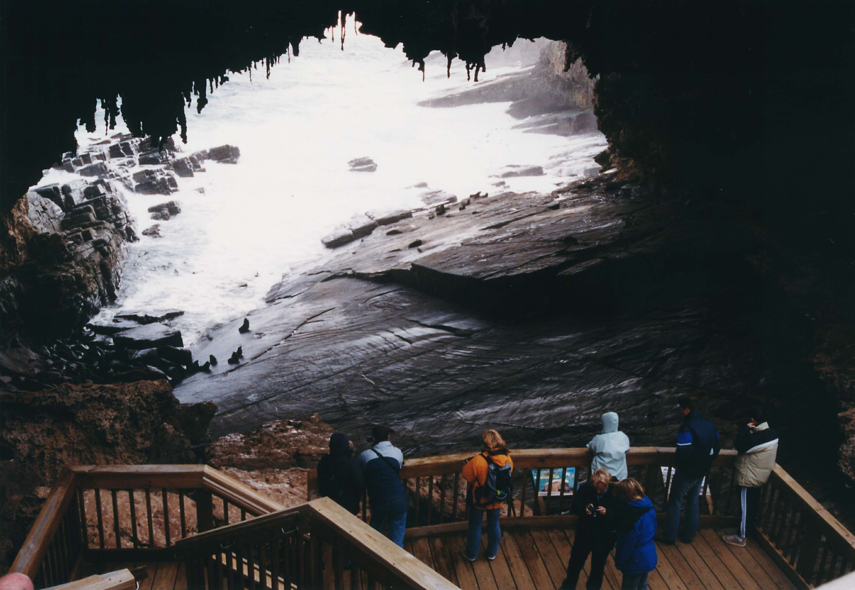 Tourists at Admiral's Arch — in Flinders Chase National Park, Kangaroo Island, South Australia.